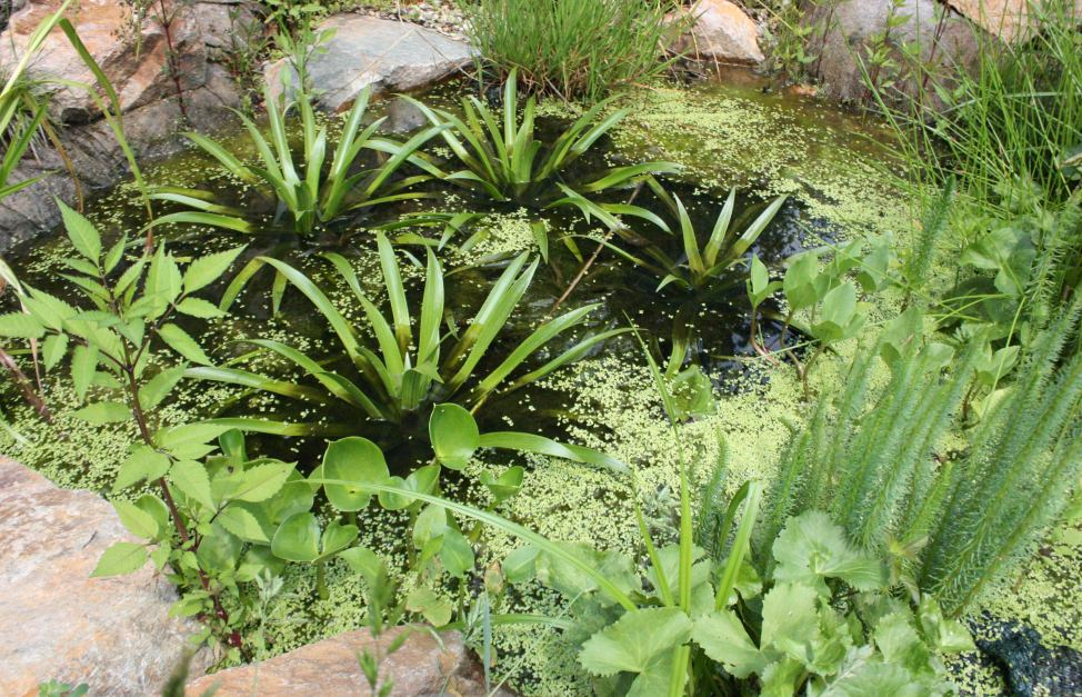 Gymnázium Brno-Řečkovice, garden lake